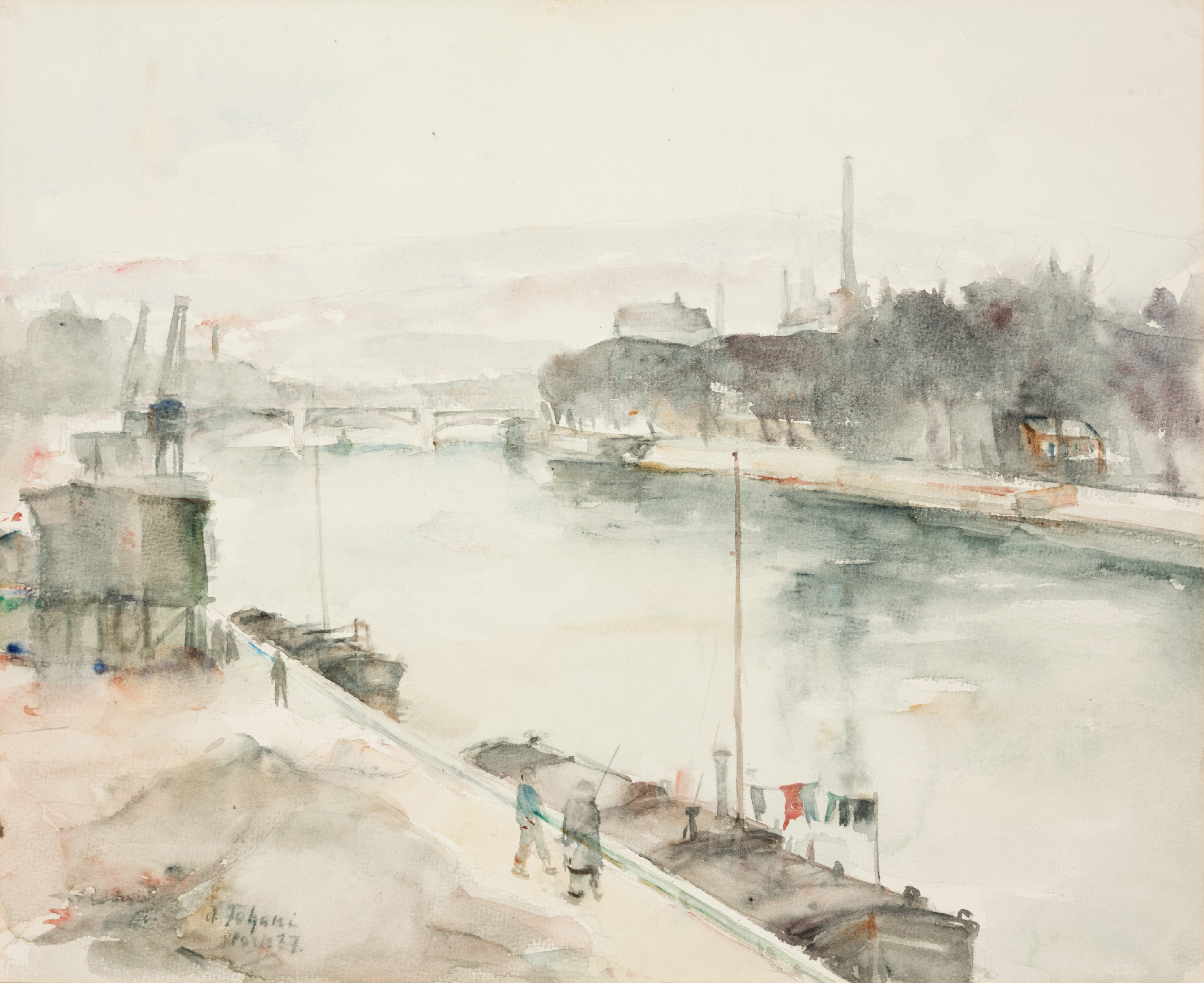 This image on crowdsourcing geotagging platform Ajapaik MUIS: TKM TR 2700 A 146